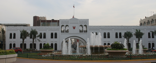 Bab Al Bahrain, Bahrain.